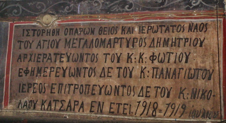 Metaxas St Demetrius Church Inscription